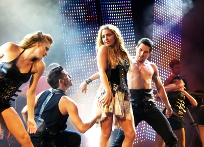 Helena Paparizou performing in Salonica during her Summer Tour 2008